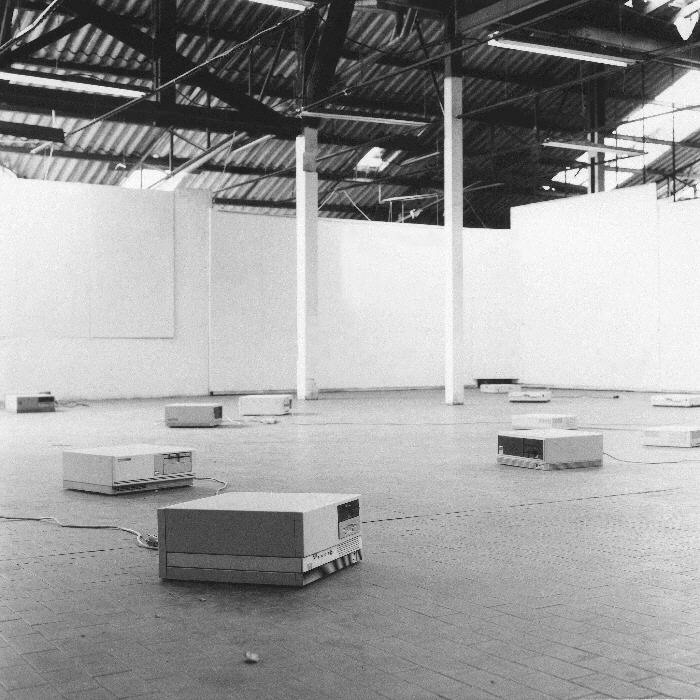 Maurizio Bolognini, Programmed Machines installation (1992-98)